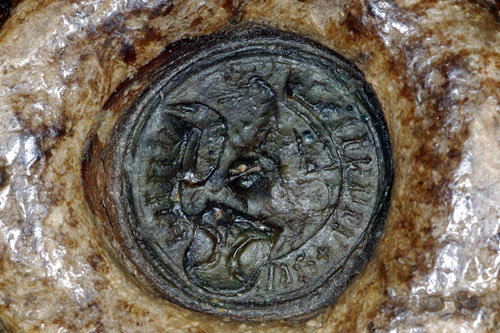 Photo of the Seal of Stibor de Poniec. Seal from year 1466.